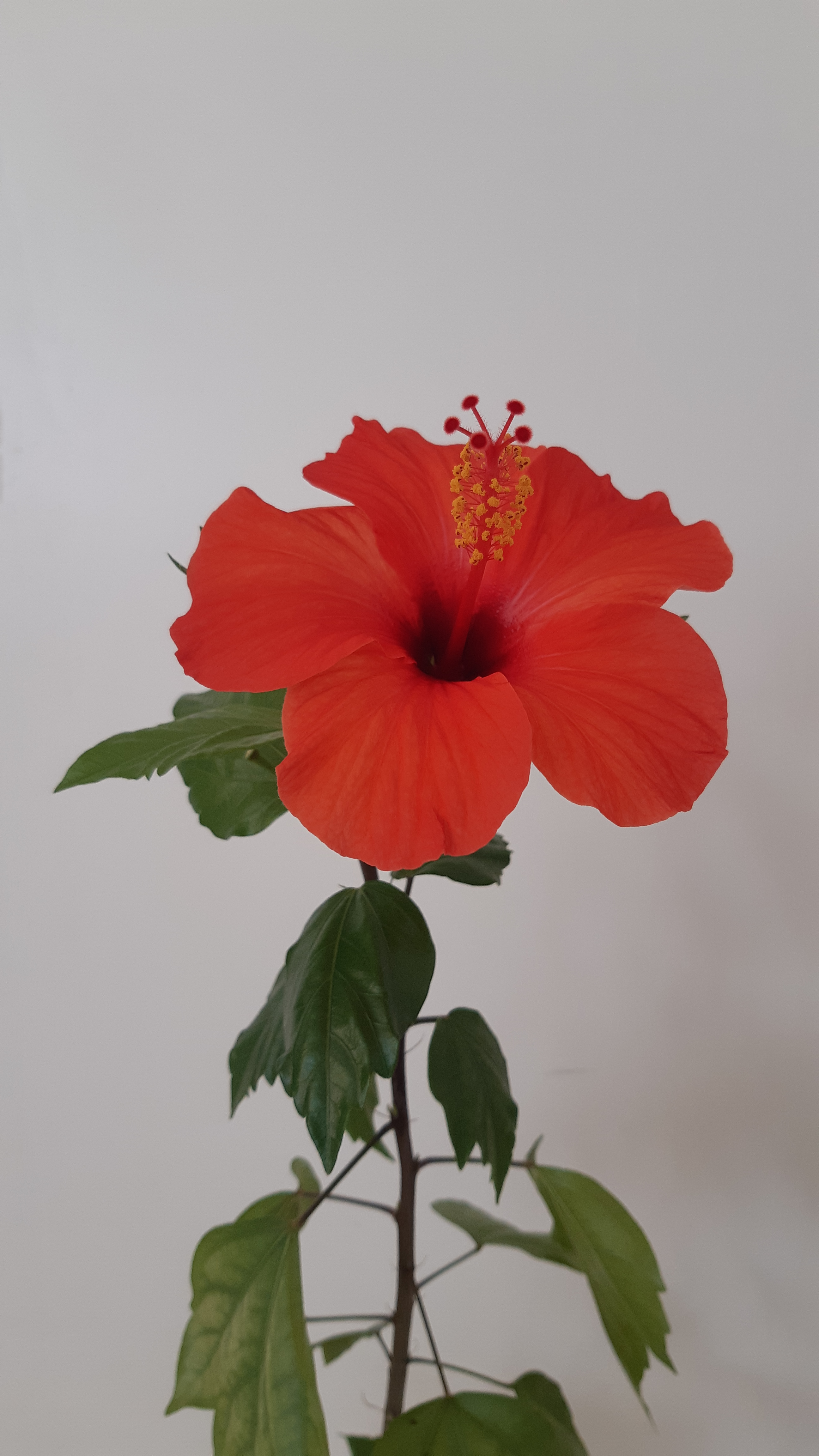 Hibiscus rosa-sinensis